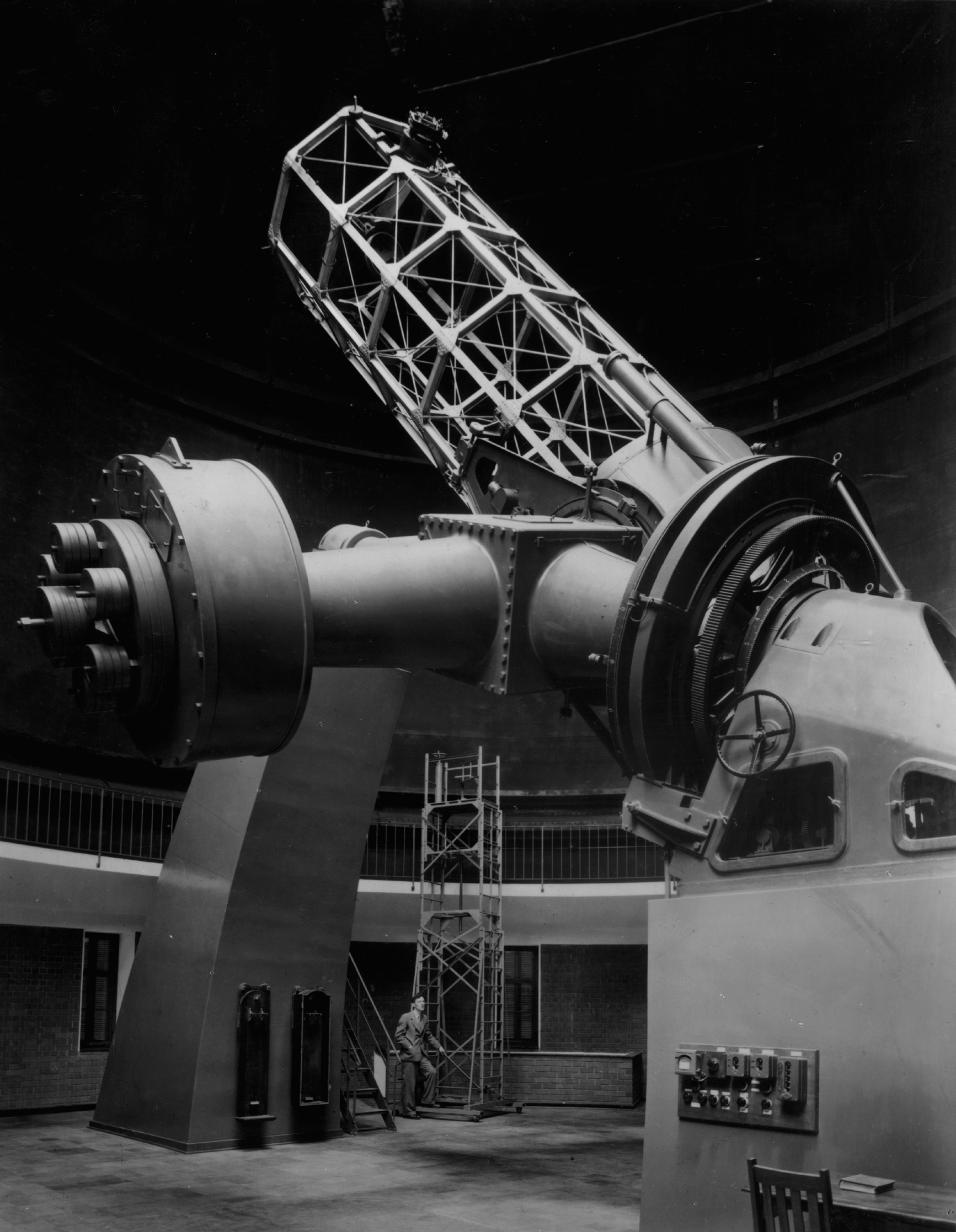 Reference: DS.GP.1919/2470 This photograph documents the Pretoria 74" Reflector, built for the Pretoria observatory at some time in the early 20th Century. This photograph is taken from the Grubb Parsons Ltd collection at Tyne & Wear Archives. The records of Grubb Parsons Ltd, Newcastle upon Tyne, England, consist of 65 linear metres (213 linear feet) of files, plans, photographs and glass plate negatives relating to this internationally renowned firm's manufacture of precision telescopic instruments. The original Business was founded in the early nineteenth century by Thomas Grubb, in 1925 the company was acquired by Sir Charles Parsons and continued to manufacture Telescopic and Astronomical instruments until 1985. This Glass Lantern Slide is taken from a large collection that documents the work of Grubb Parsons Ltd at their workshop in Walkergate, Newcastle upon Tyne. It was here that Grubb Parsons Ltd manufactured Telescopic and Astronomical equipment for companies and observatories world wide. Their equipment was designed and built for use and research across the Globe, to name only a few of these locations Grubb Parsons Ltd supplied to the UK, Switzerland, Denmark, Egypt, South Africa, Greece, Australia, Japan, India, Hawaii, Poland, Chile, Canada, France and Spain. (Copyright) We're happy for you to share these digital images within the spirit of The Commons. Please cite 'Tyne & Wear Archives & Museums' when reusing. Certain restrictions on high quality reproductions and commercial use of the original physical version apply though; if you're unsure please The telescope was located in Radcliffe Observatory (in Pretoria) in 1948–1972, and in South African Astronomical Observatory (in Sutherland) since 1974 (page of the telescope).